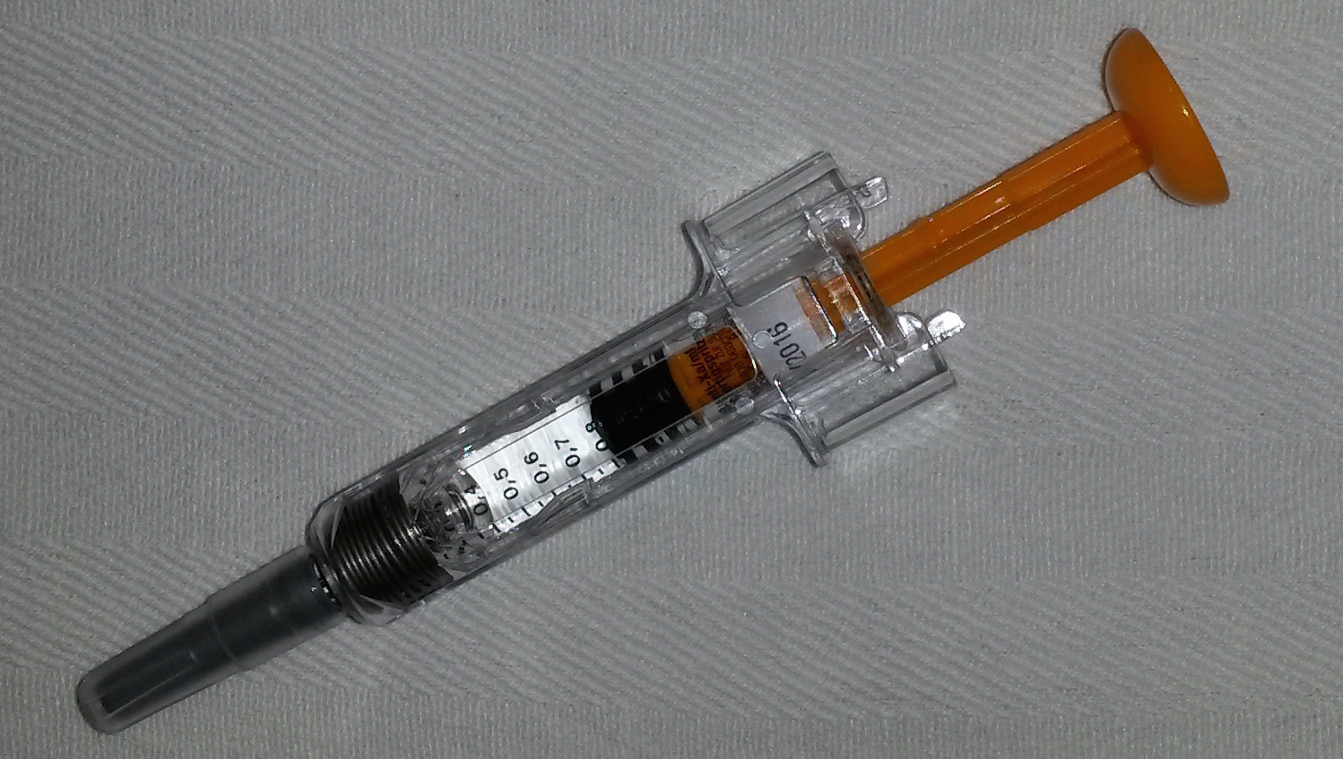 Ready-to-use syringe with mechanism to prevent needlestick injuries